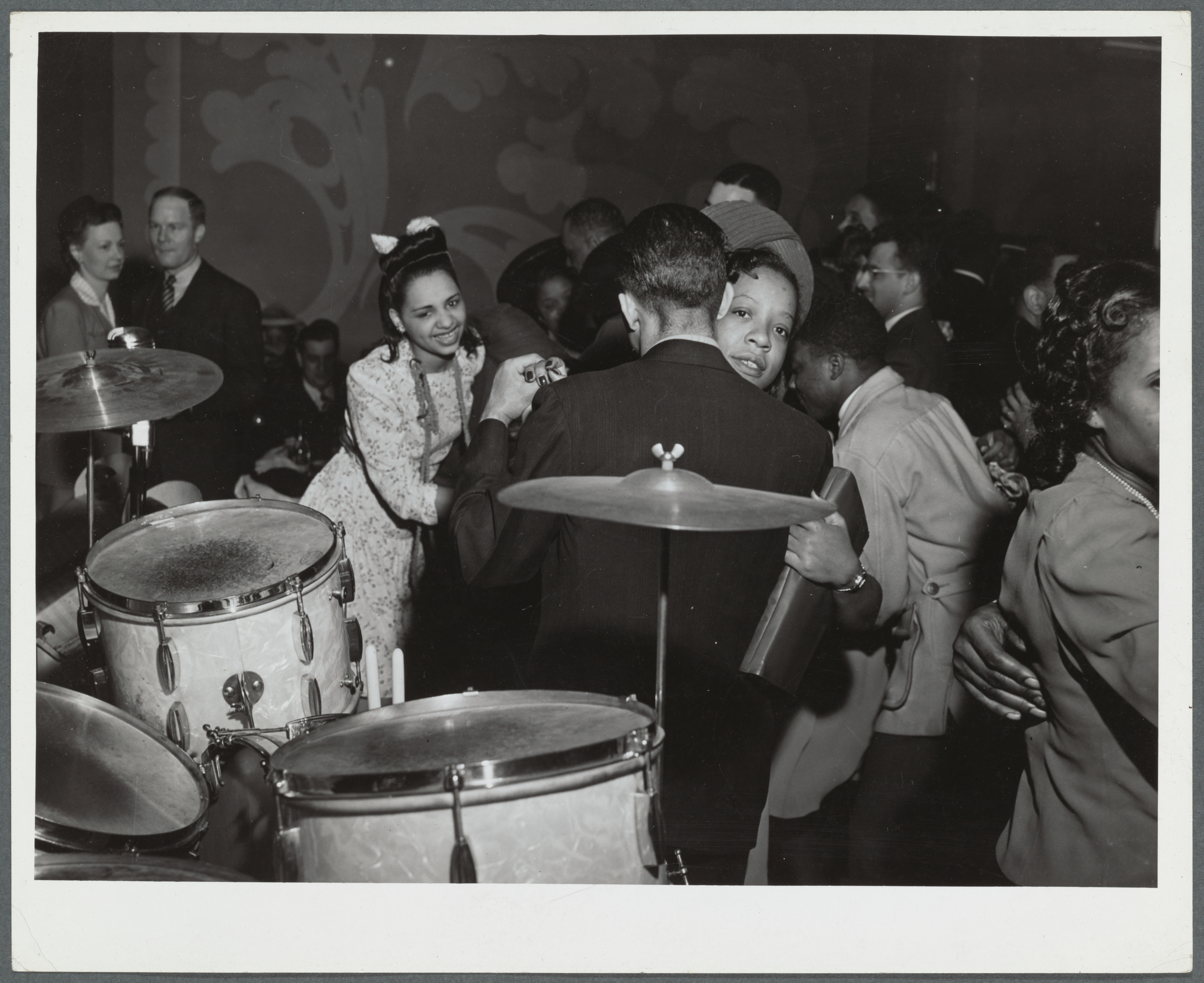 WPA photograph